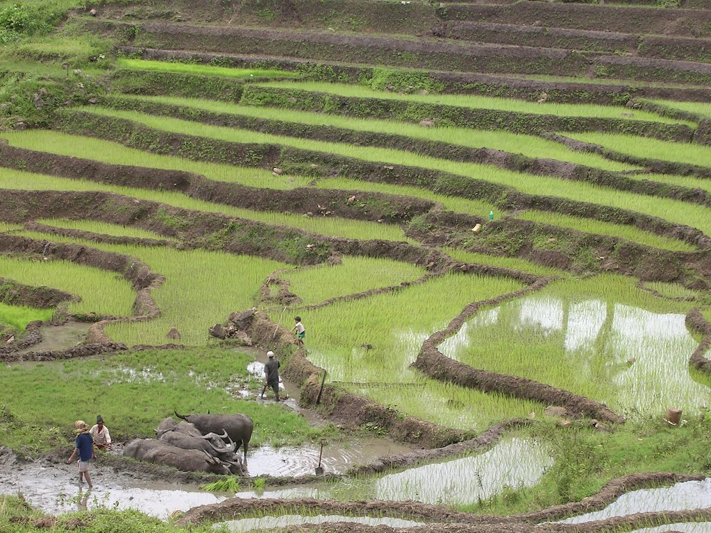 Rice terraces and Water Buffalo near Luro village, Luro subdistrict, Lautem, Timor-Leste